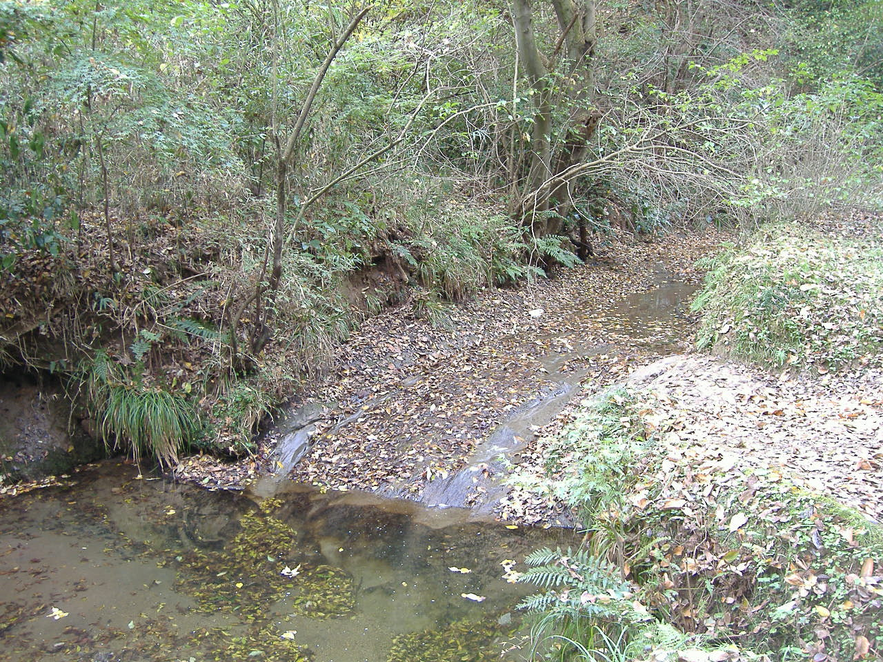 Ōoka River,Riverhead (Yokohama, Japan)